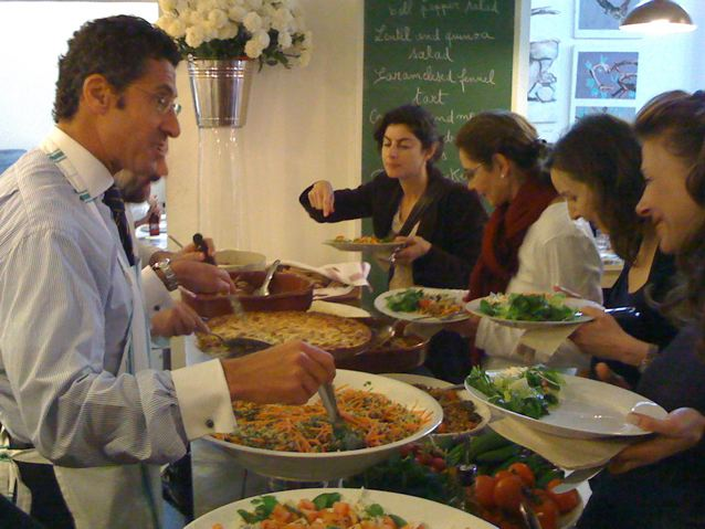 Maxime Chaya during TOUFOULA's fundraising lunch at Tawleh.